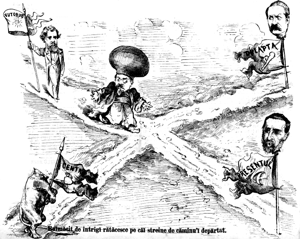 Buĭmăcit de intrigĭ rătăcesce pe căĭ streine de căminu'i depărtat ("Dazzled by Intrigues, he wanders upon roads that take him far away from his home"): caricature of the Romanian political leader Mihail Kogălniceanu (in boyar clothes) upon his split from the National Liberal group. The latter is represented, top left, by Ion Brătianu and his sun-banner, marked Viitorul ("The Future"). Top right is conservative Lascăr Catargiu as a decapitated head on a pole marked Dreapta ("The Right [Wing]"), bearing a banner with the club—alluding to electoral violence. Similarly, moderate Ion Ghica is depicted bottom right, with Presentul ("The Present Day") and a flag bearing a half-moon—alluding to his friendliness toward the Ottoman Empire. Bottom left is a headless calf marked Centru ("Center"), its banner depicting a purse—suggesting that the centrists would sell themselves to the highest bidder.